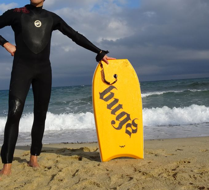 Bodyboard with Crescent Tail